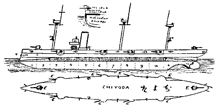 Deck plan and the left side view of Chiyoda armoured cruiser, dated 1904